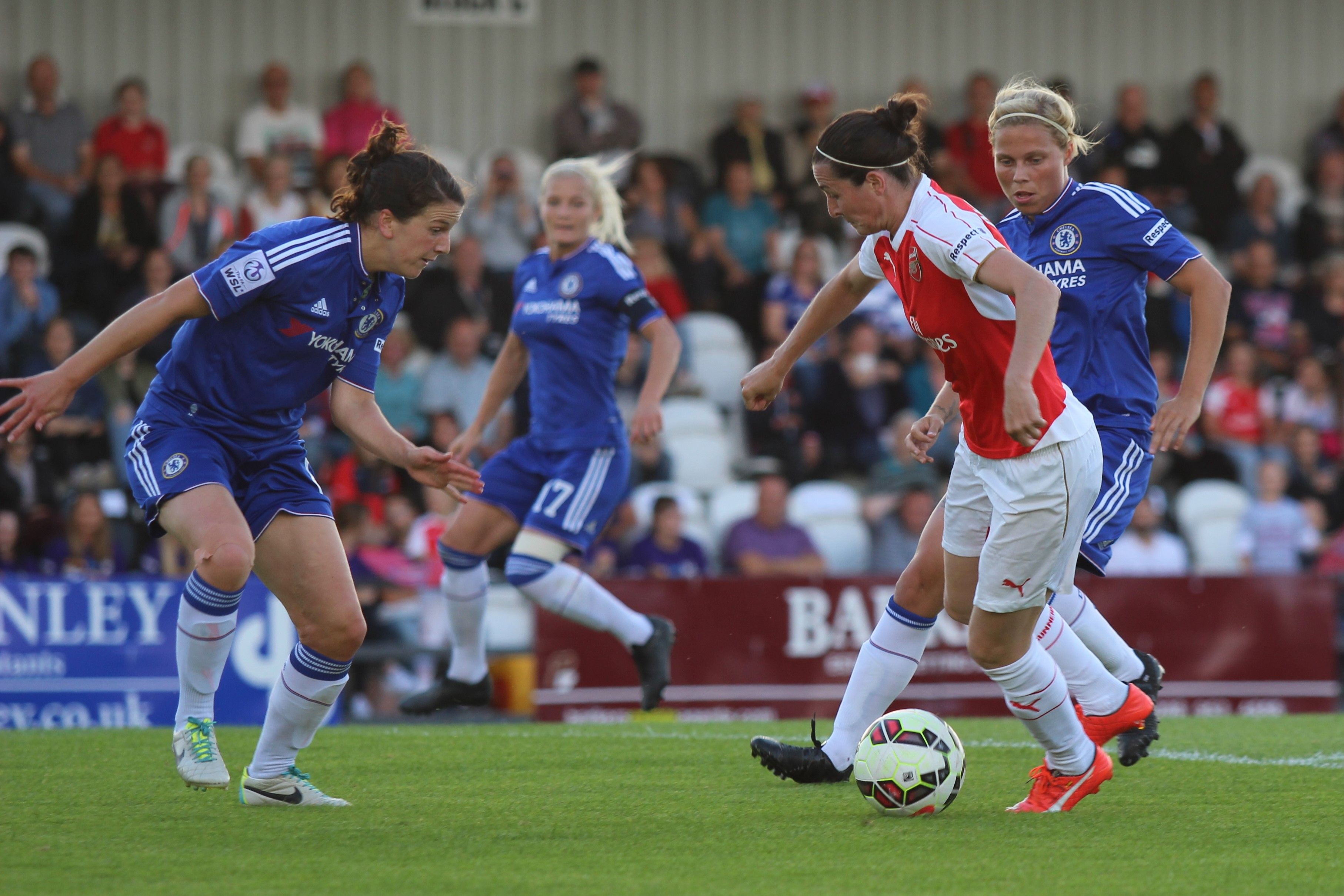 Natalia Pablos Sanchon of Arsenal Ladies runs at the Chelsea defence.